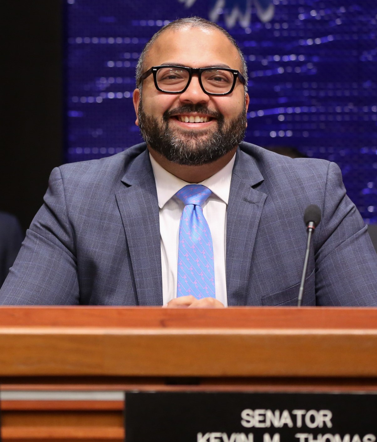 New York State Senator Kevin Thomas, appearing at a Consumer Protection Meeting in 2019.